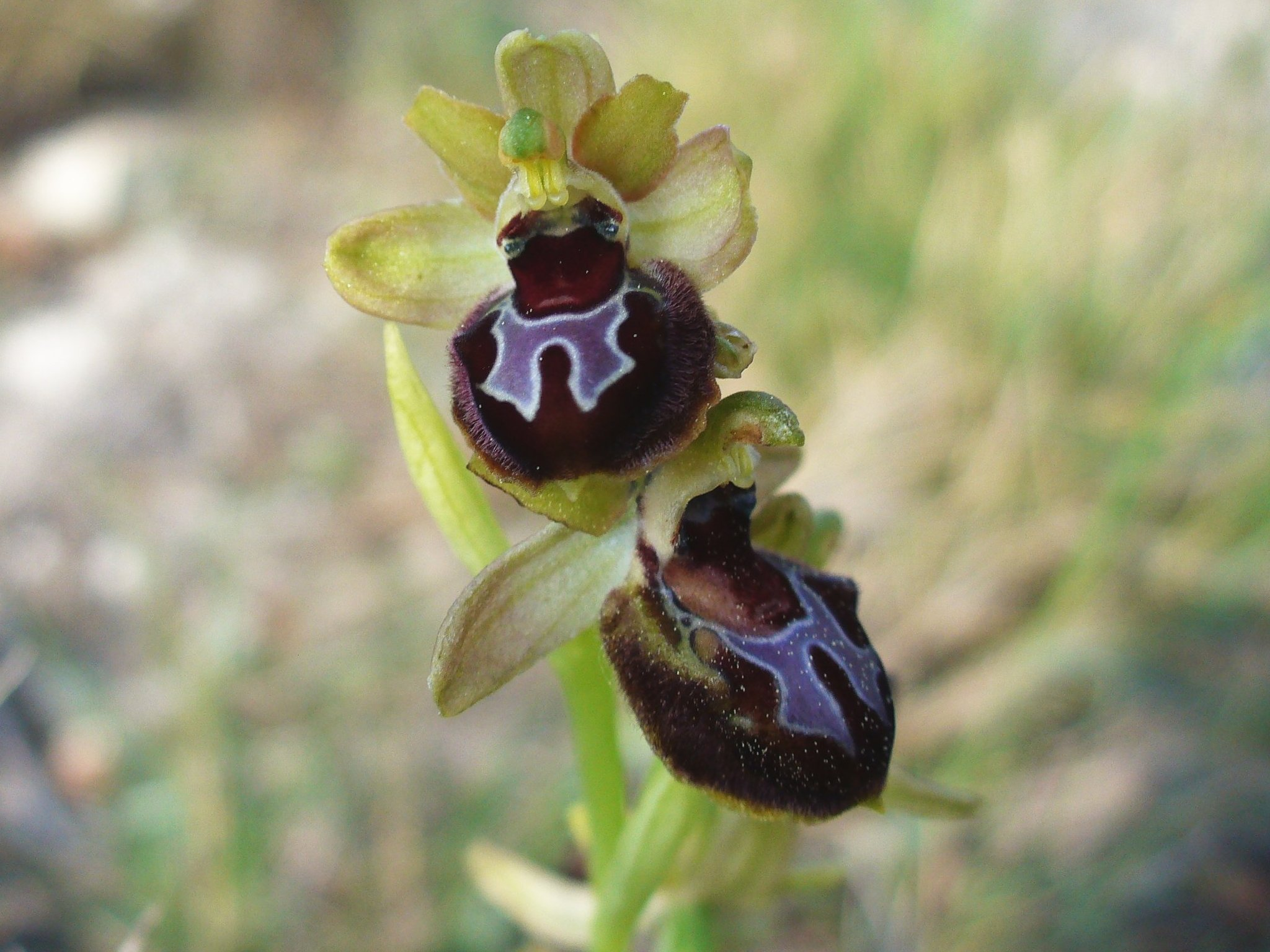 Ophrys provincialis flowers